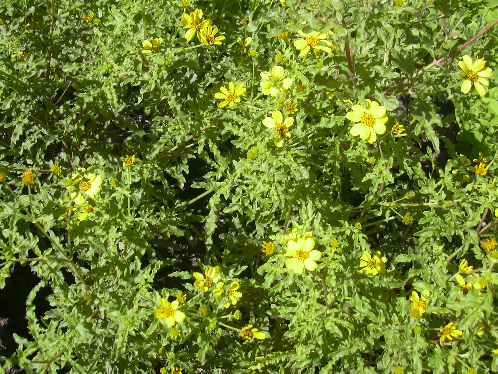 Lipochaeta rockii (flowers). Location: Maui, Puu o Kali